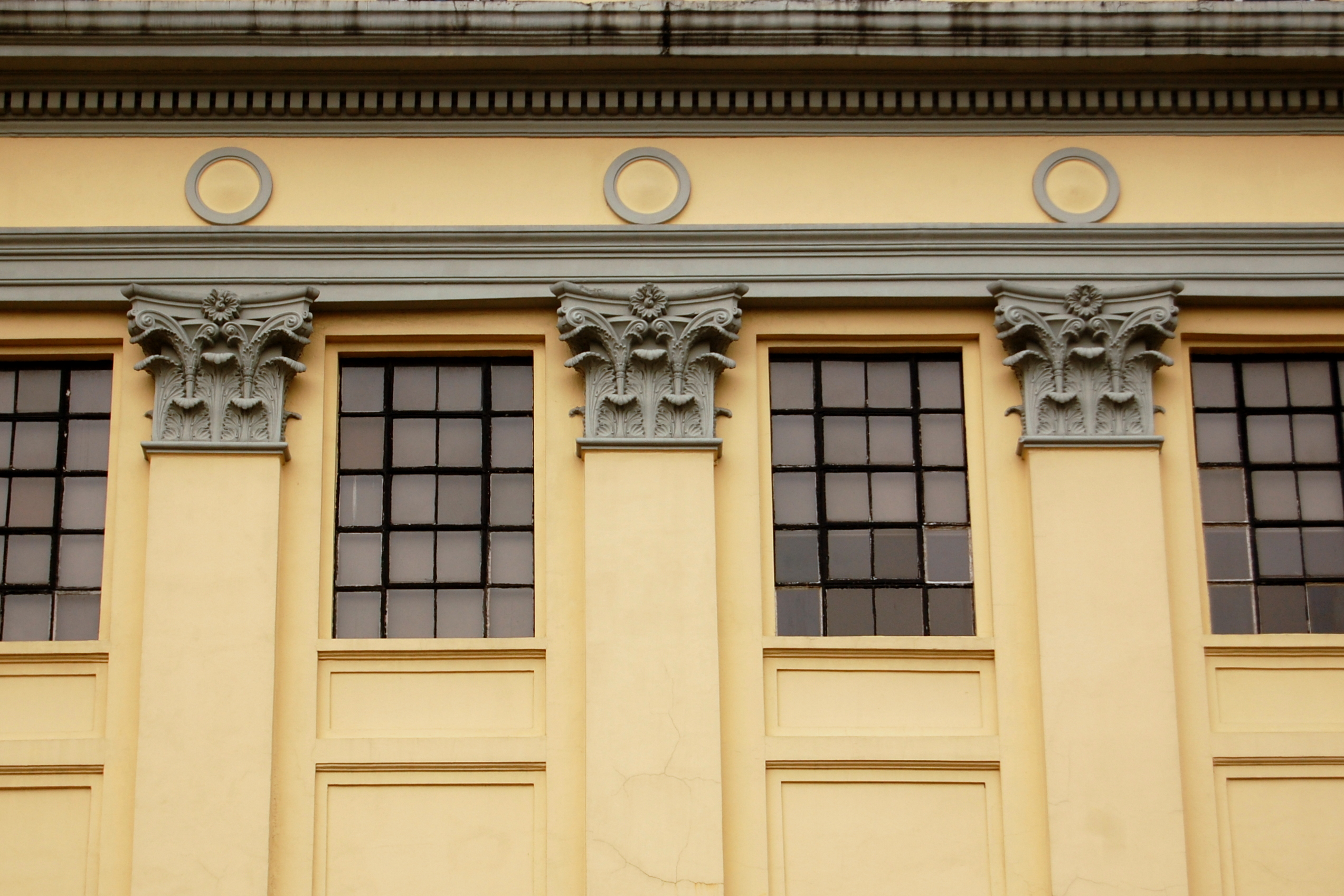 Close up of the facade of the National Art Gallery